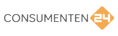 Logo of Consumenten 24